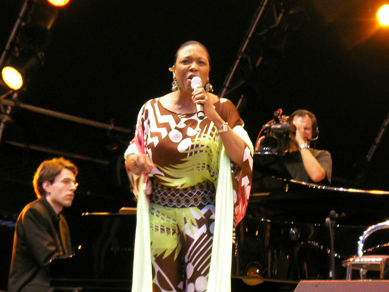 Dee Dee Bridgewater in concert with the Big Band of the Kölner Musikhochschule on July 7th 2006 in Cologne, Germany.